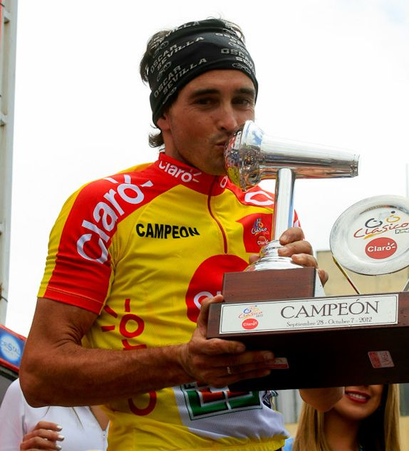 Oscar Sevilla, RCN Classic champion